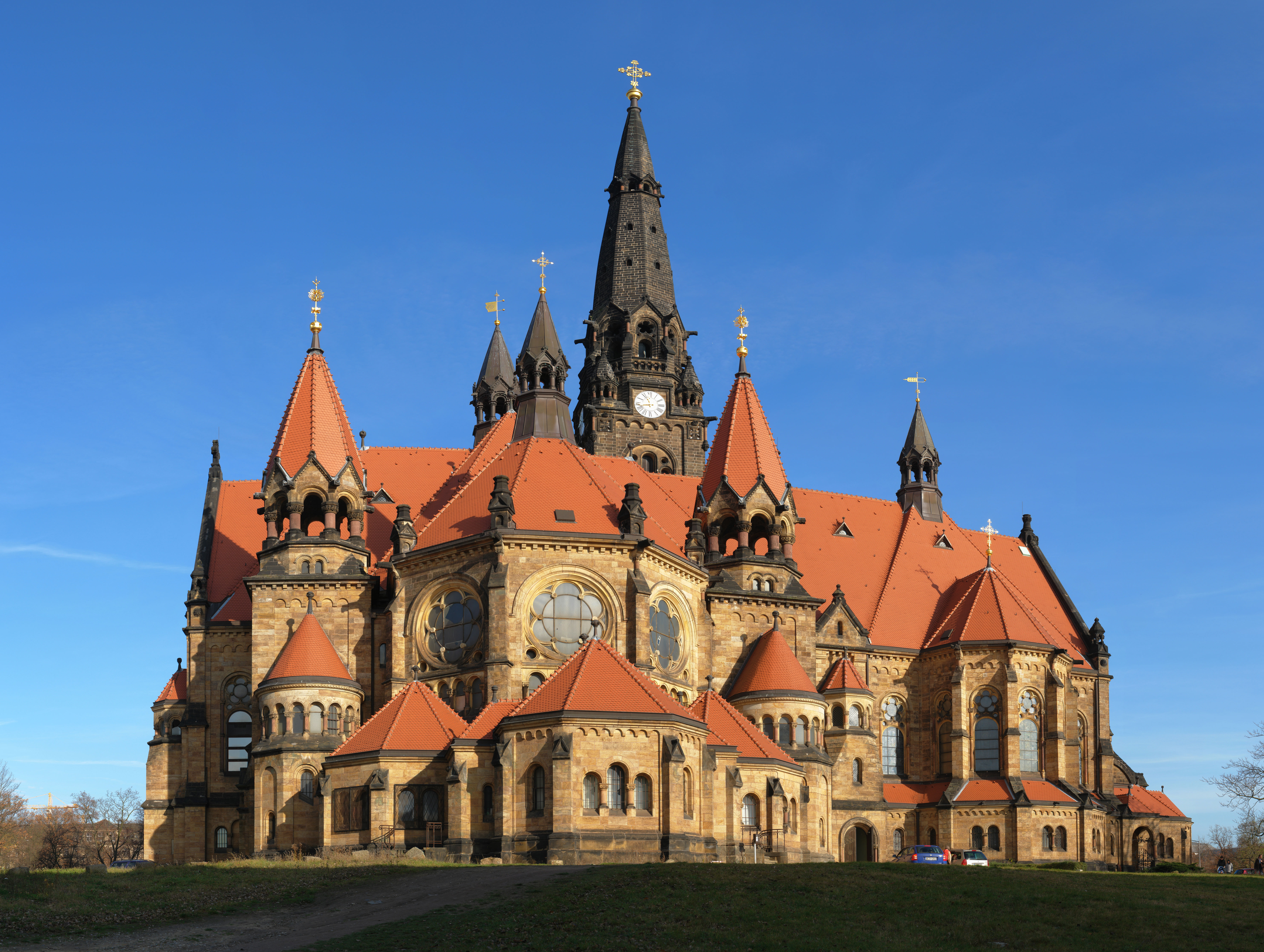 South face of the Garrison Church, Dresden, Germany.